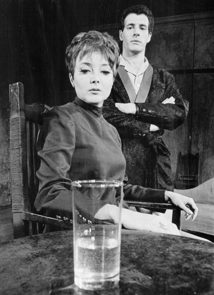 Photo of Carolyn Jones and John Church from the Broadway play The Homecoming.